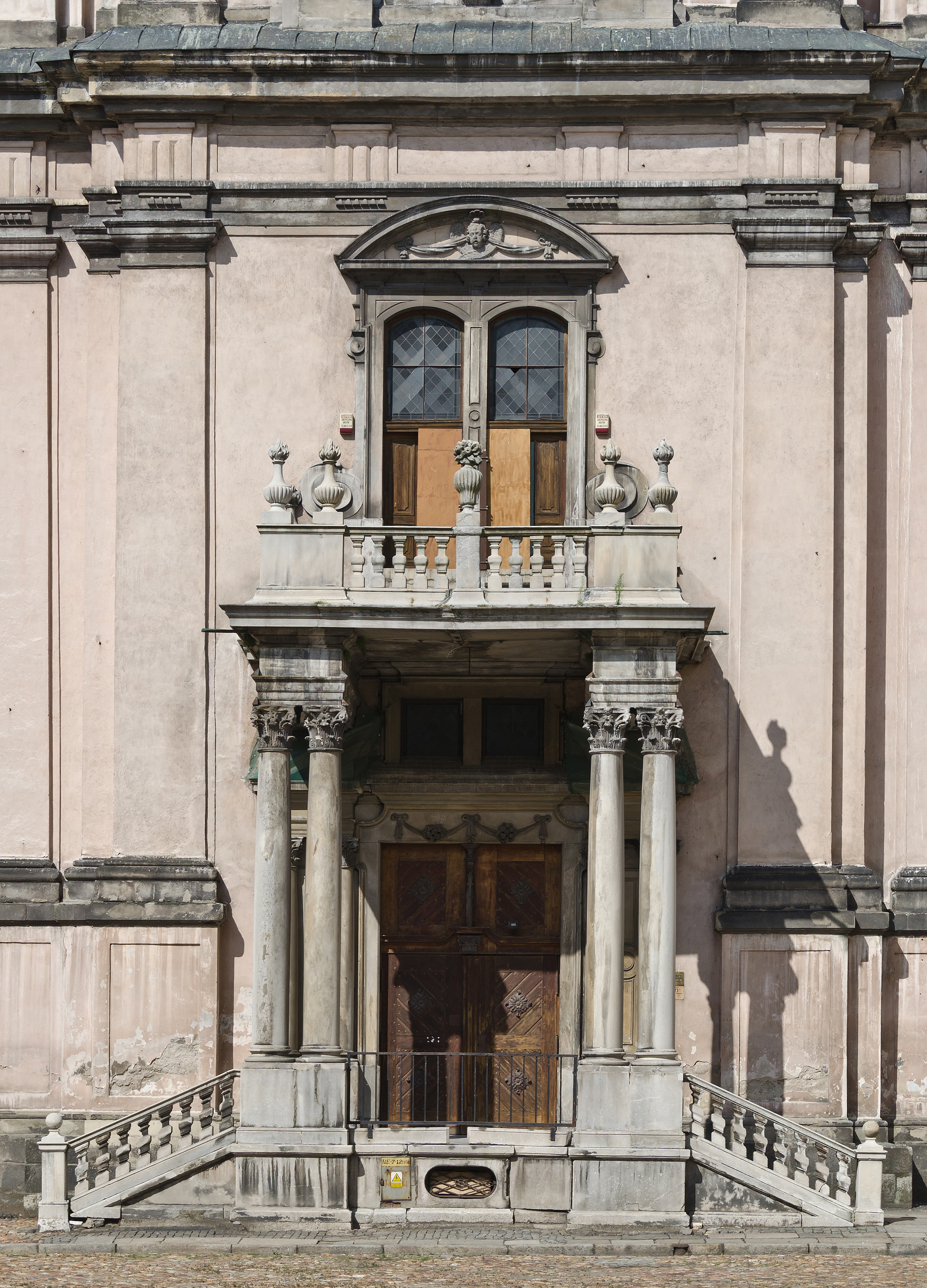 Church of the Assumption of Holy Virgin Mary in Nysa